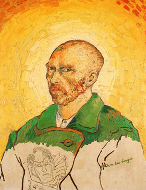 Study by Candlelight attributed to Vincent Van Gogh, 1888